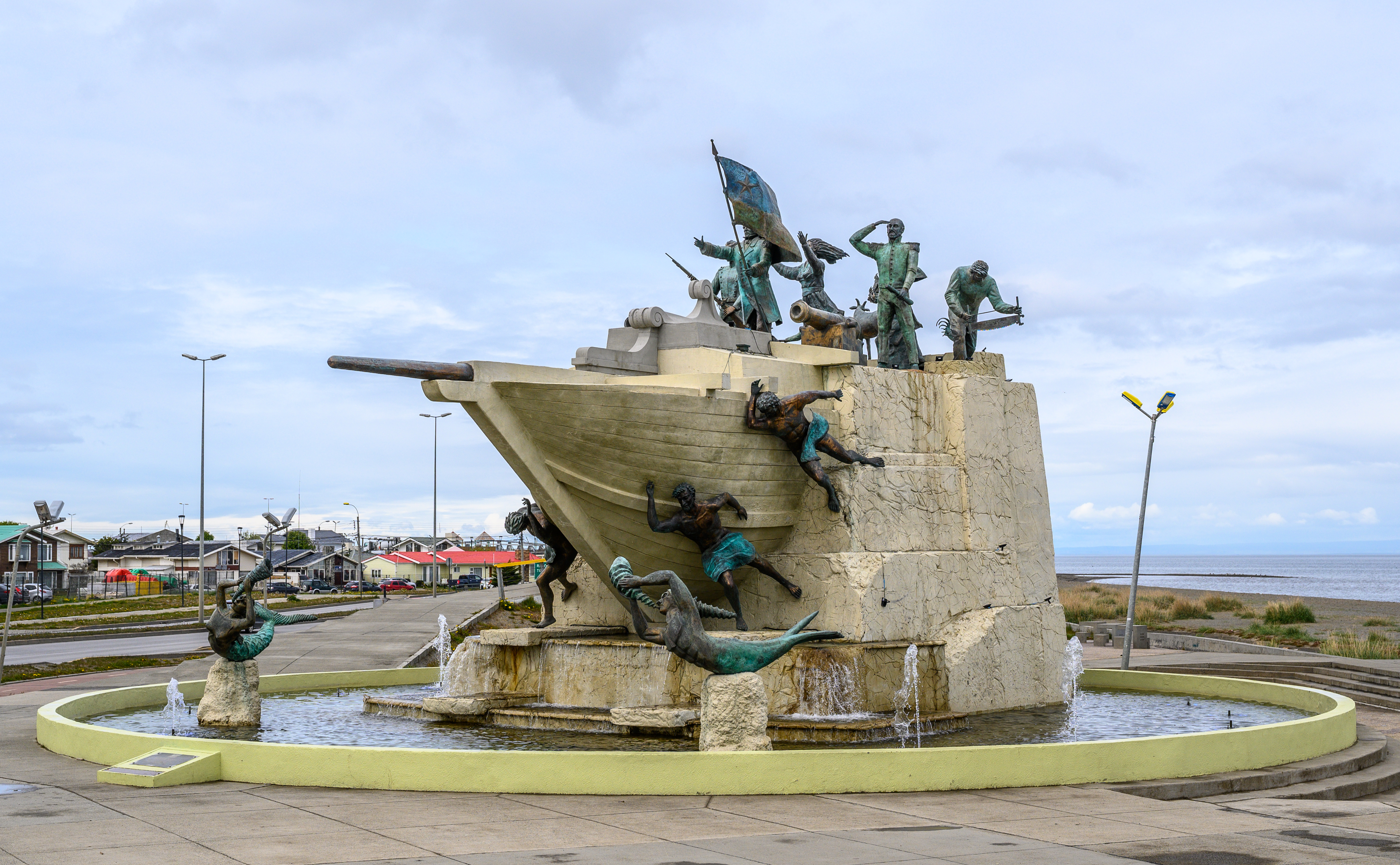 Monument Monumento A Tripulantes Goleta Ancud in Punta Arenas/Chile